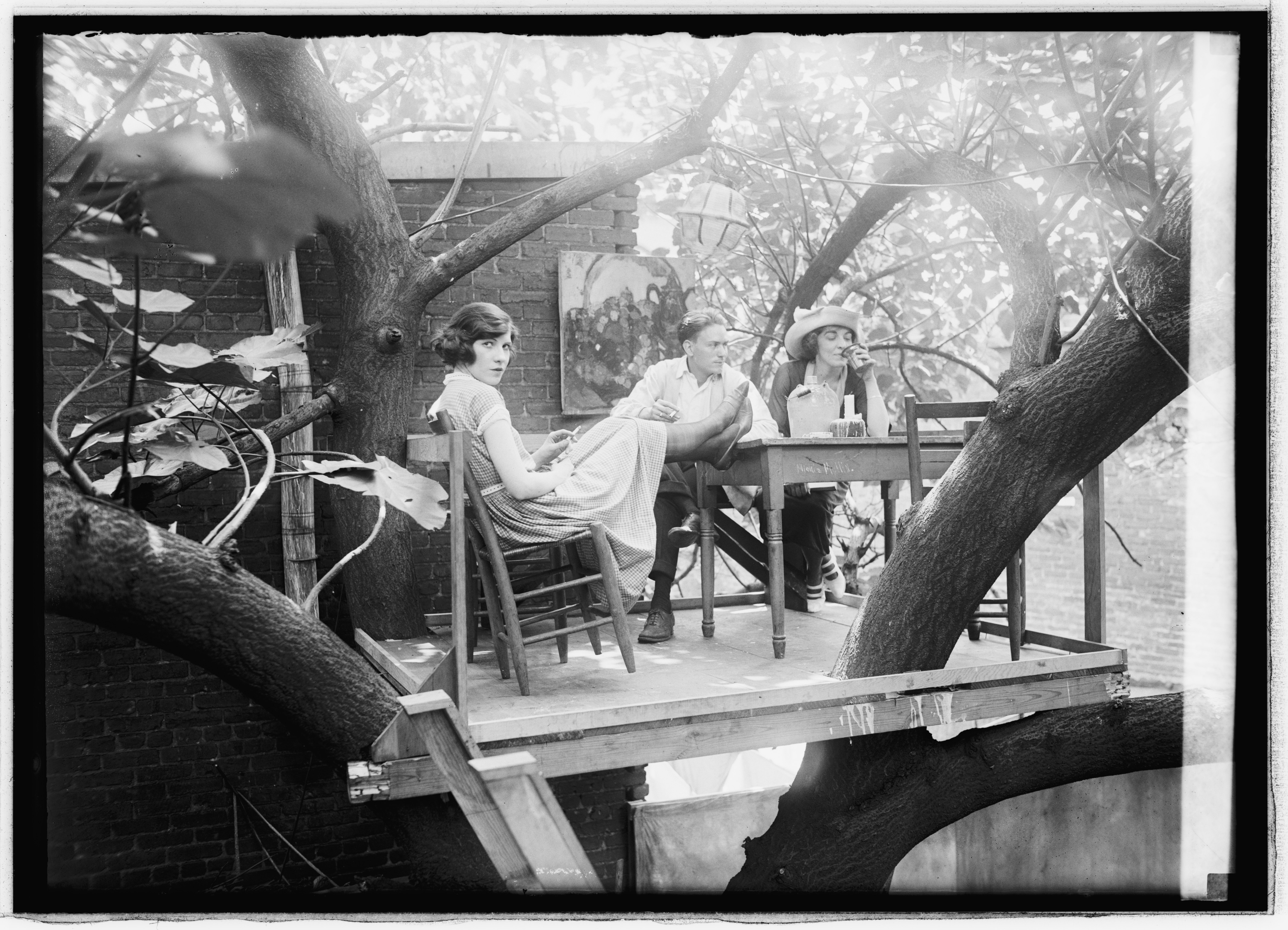 Title: Krazy Kat, 7/15/21 Abstract/medium: 1 negative : glass ; 5 x 7 in. or smaller